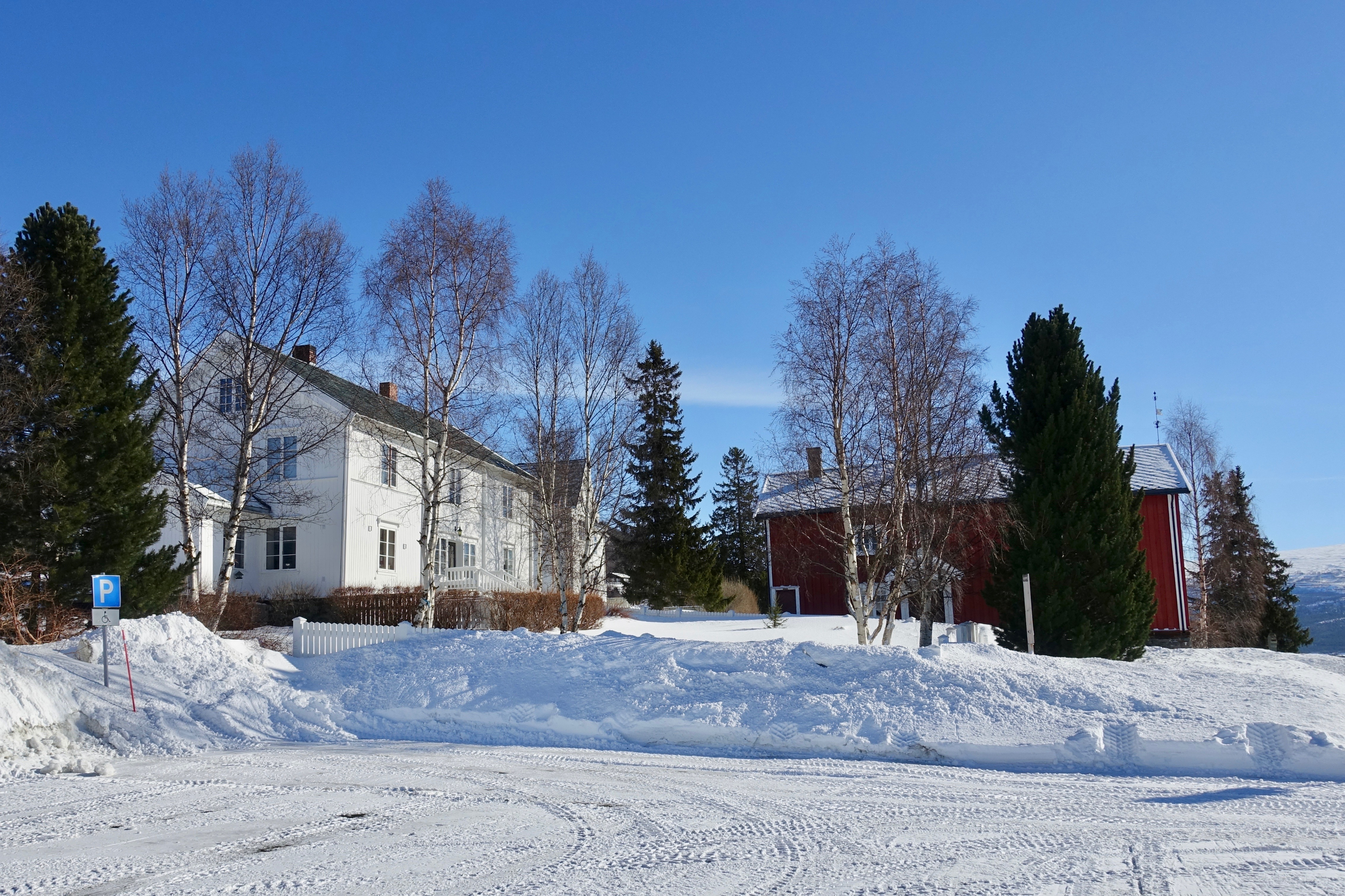 Oppdal manse (prestegard) near Oppdal Church in Gauldal deanery (prosti), Trøndelag county, Norway. Raulåna, blue sky, snow, etc. Photo 2019-03-19